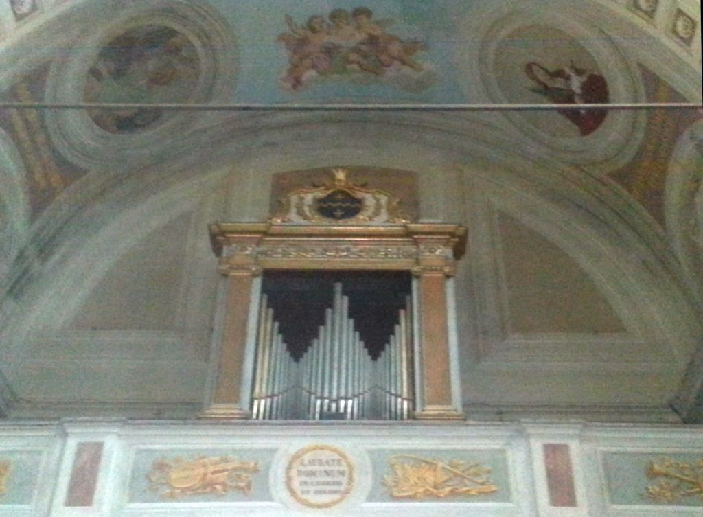 San Sisto di Pomezzana - organo